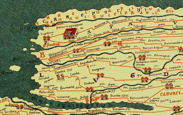 Crop of the Tabula Peutingeriana, 1-4th century CE. Facsimile edition by Conradi Millieri, 1887/1888